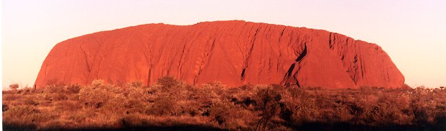 Photograph of Uluru at dusk from a tourist viewing area.